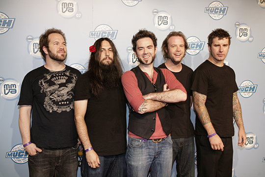 Finger Eleven was an attendee at the 2007 MuchMusic Video Awards, held the night of Sunday, June 17, 2007 in Toronto, Ontario, Canada.